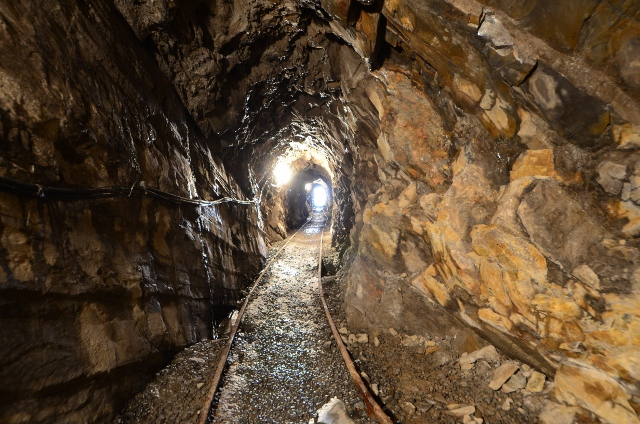 Llynwernog Lead and Silver Mine. Silver (Ag) has a similar ionic radius to lead (Pb) so silver/lead mines are common. Especially in the Northern Pennines. This is an exploration adit driven in 1906 to hit the galena (PbS) bearing vein. It was a failed venture.